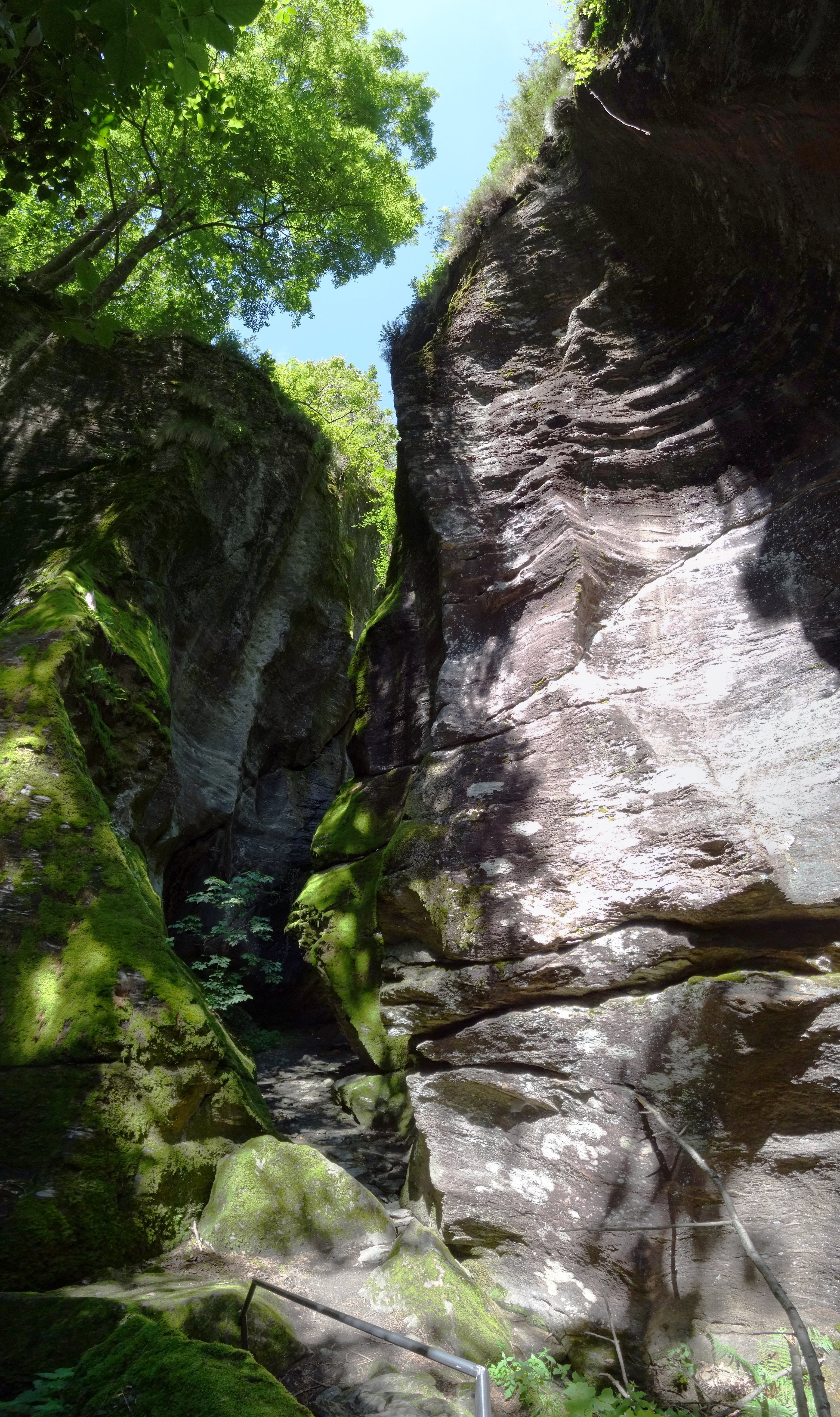 lower entrance to the south canyon of Uriezzo